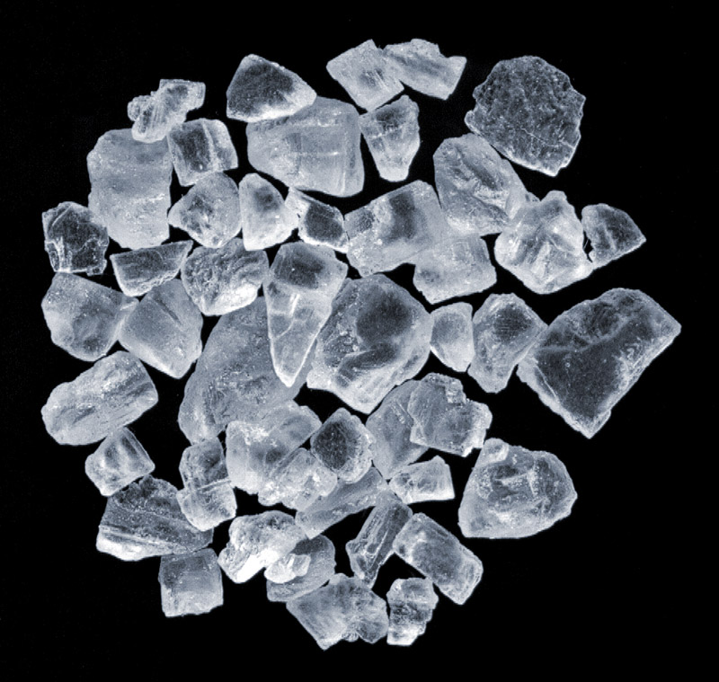 This image shows a close-up of salt. The size of this image in real-world is 2.08 x 1.93 cm (0.82 x 0.76 inch).